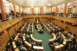 Debating Chamber in Parliament House, Wellington.